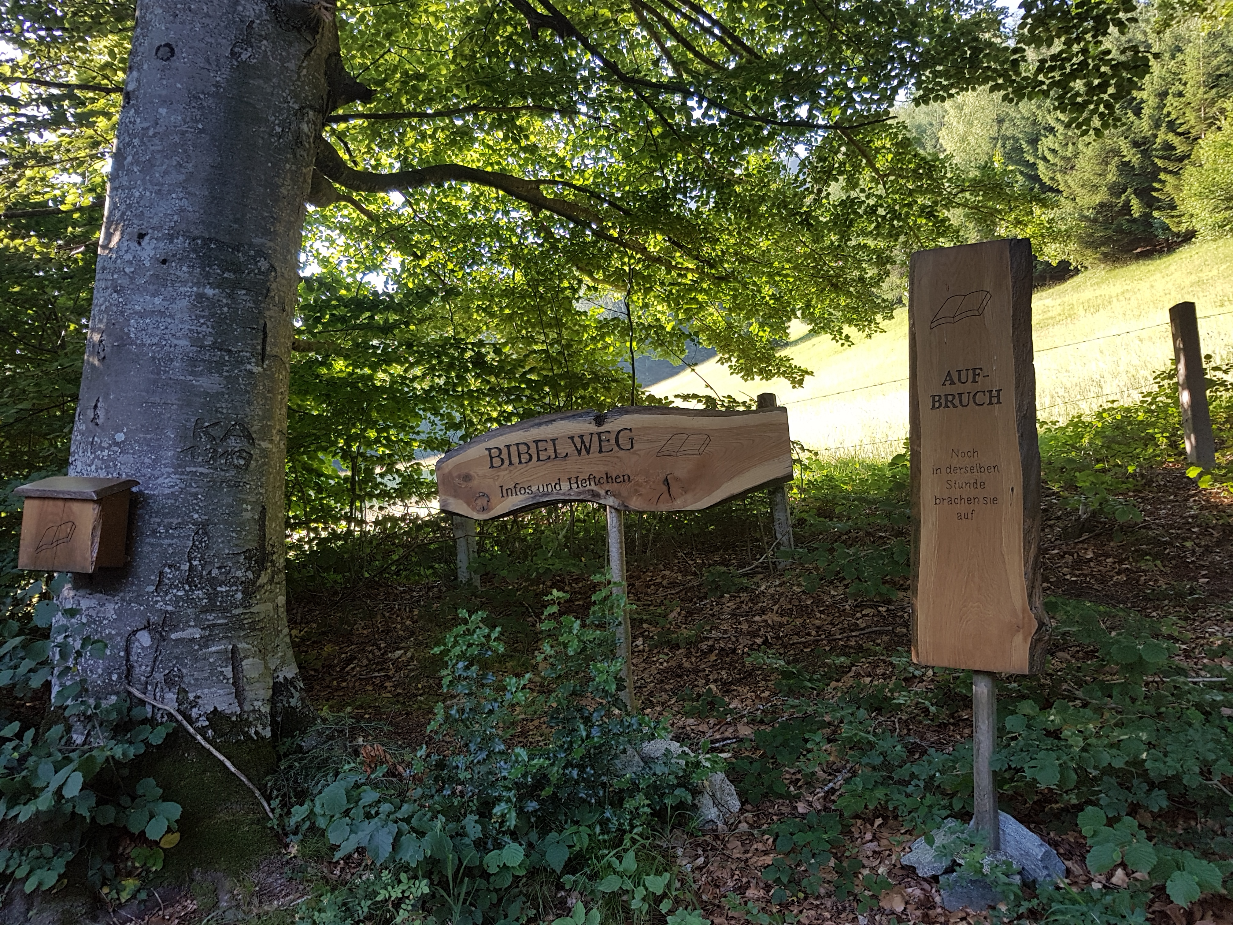 Bible-Way along the Gamperdonaweg from Stellverder (toll house) to Kühbruck (chapel). The street is only accessible for authorized persons and partially only single lane. There is a ban on bicycles. Next to the Gamperdonaweg runs the Mengschlucht (canyon) with the river “Meng”. 1th station: "departure".